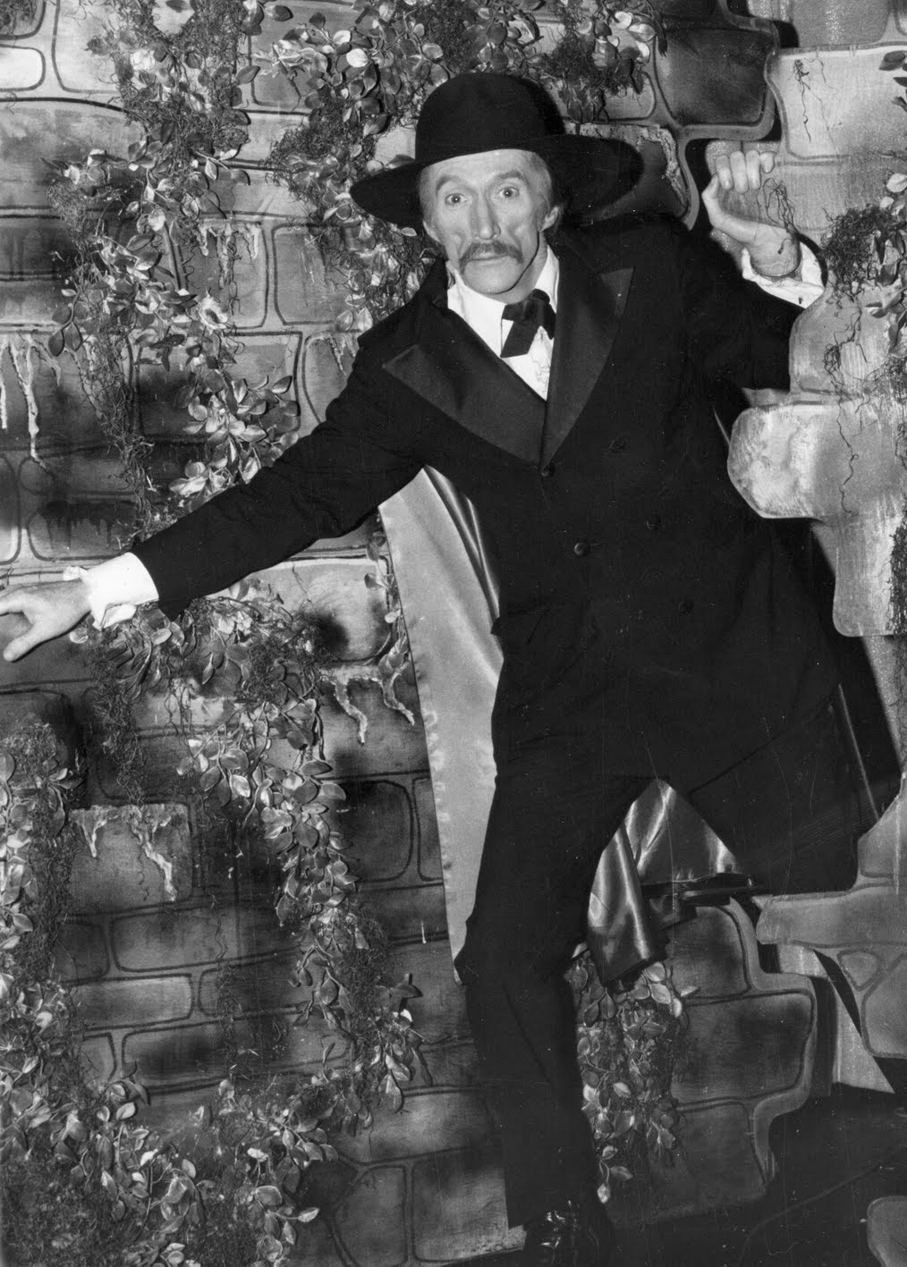 Sinister Seymour at Knott's Berry Farm's Halloween Haunt in 1973.